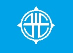 Flag of Former Nikko Tochigi